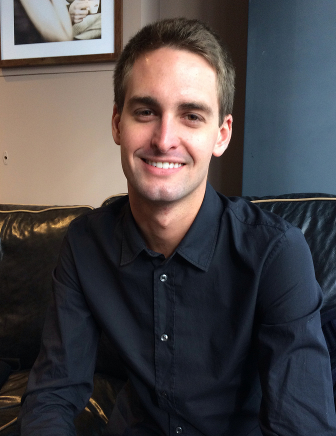 Pictured in London in November 2013